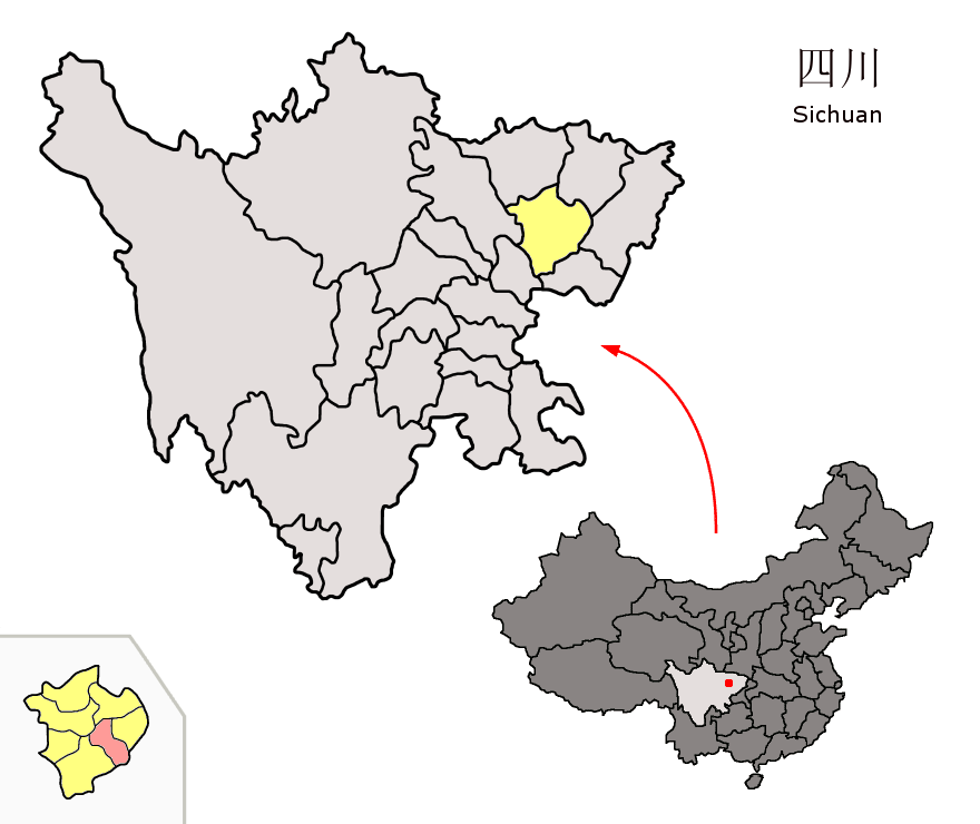 Location of Peng'an County (pink) and Nanchong Prefecture (yellow) within Sichuan province of China Map drawn in october 2007 using various sources, mainly : Sichuan province administrative regions GIS data: 1:1M, County level, 1990 Sichuan Counties map from